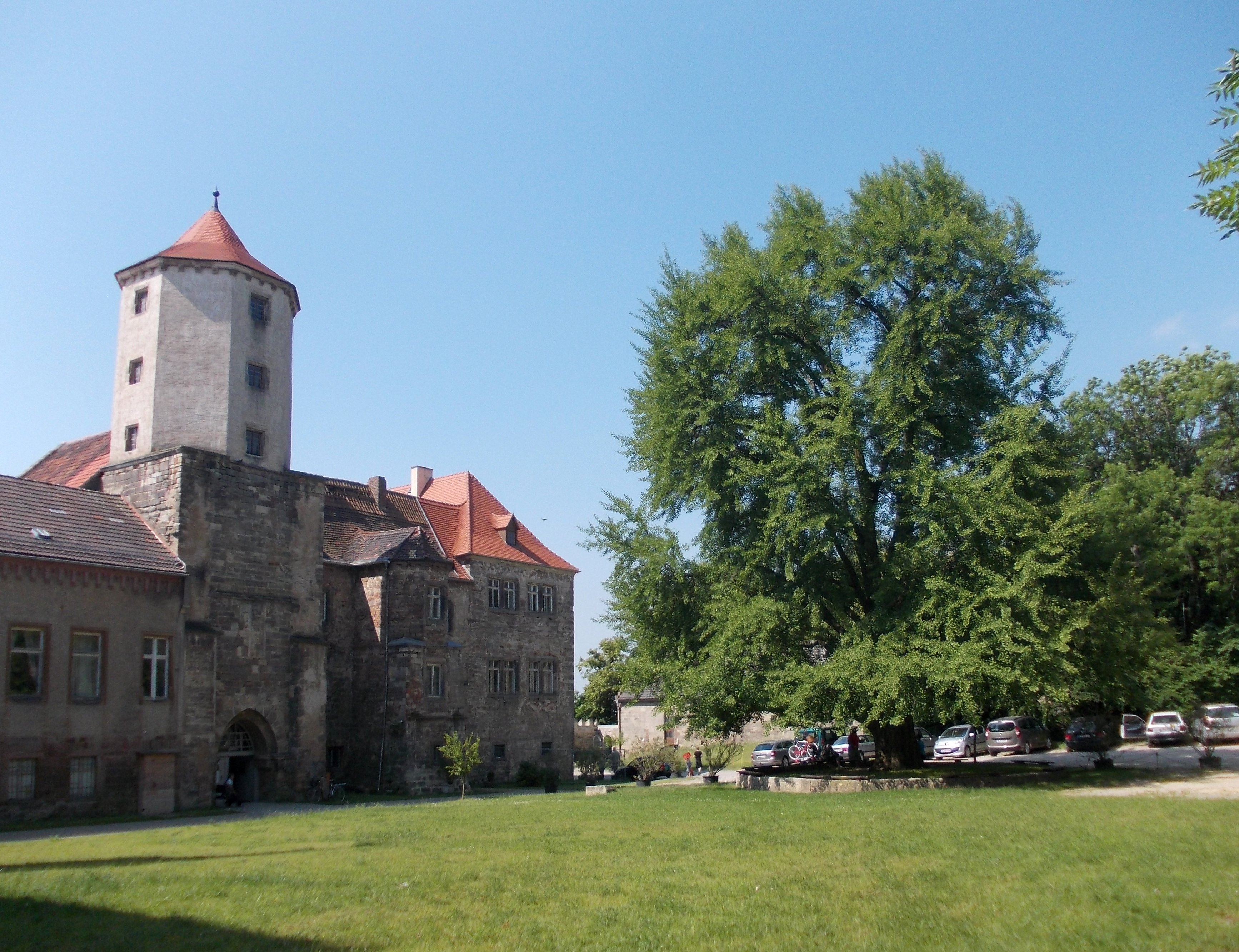 Goseck Castle (district: Burgenlandkreis, Saxony-Anhalt) with ginkgo tree